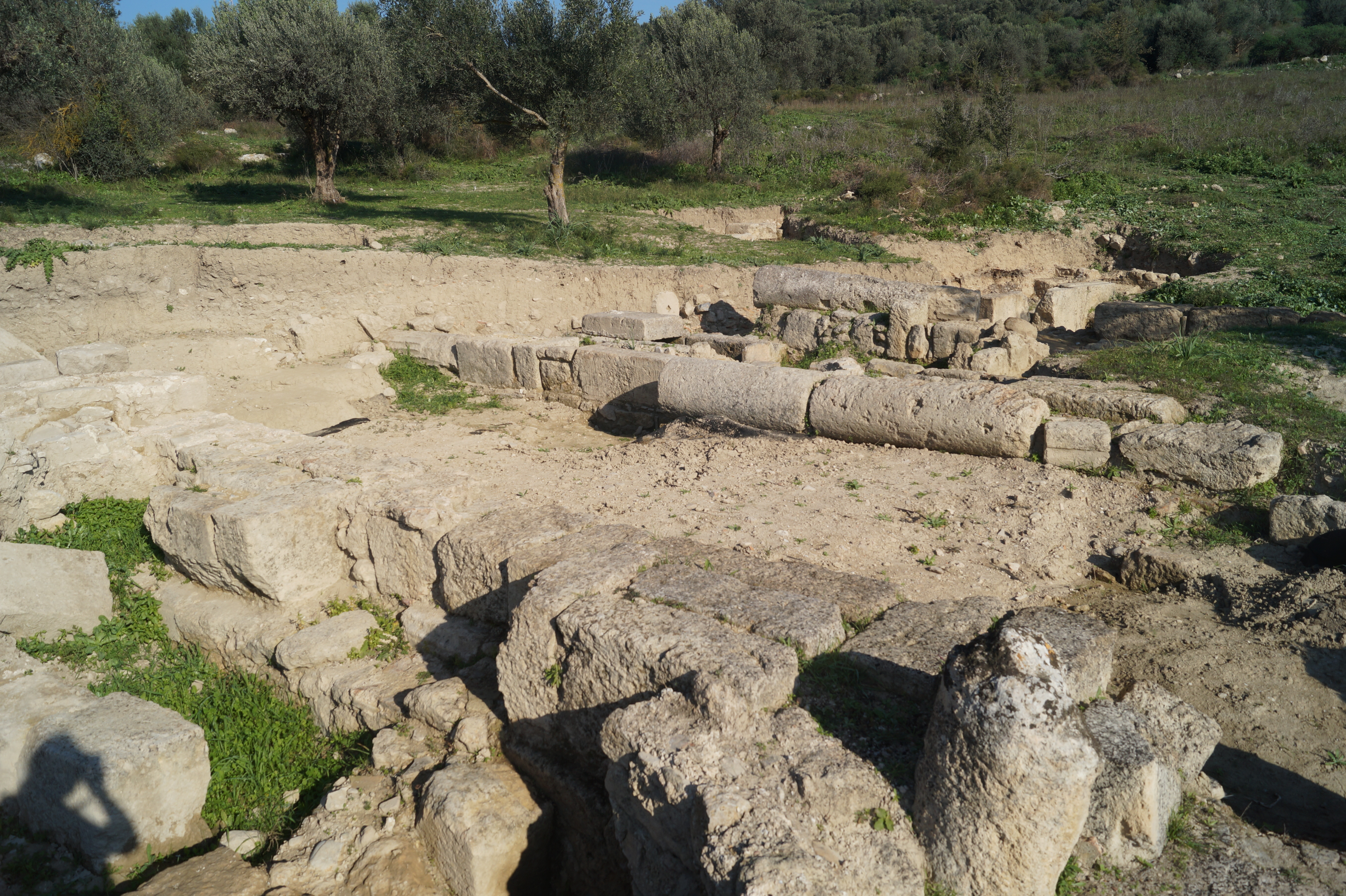 Archaies Kleones, Corinthia, Greece: Central aisle of the basilica (5th century)